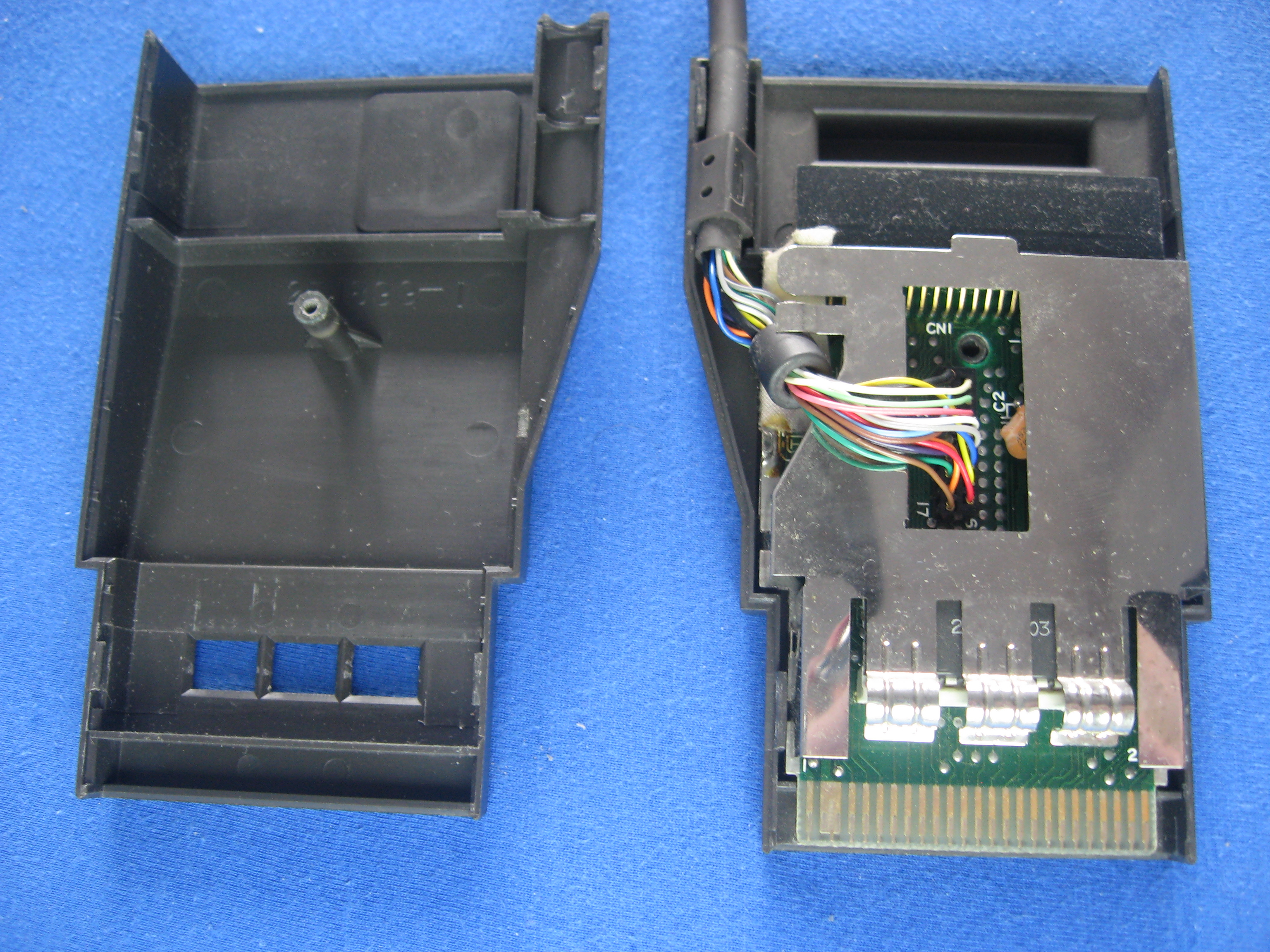 opened connector for connecting to the expansion port of the Commodore C16, C116, or Plus/4